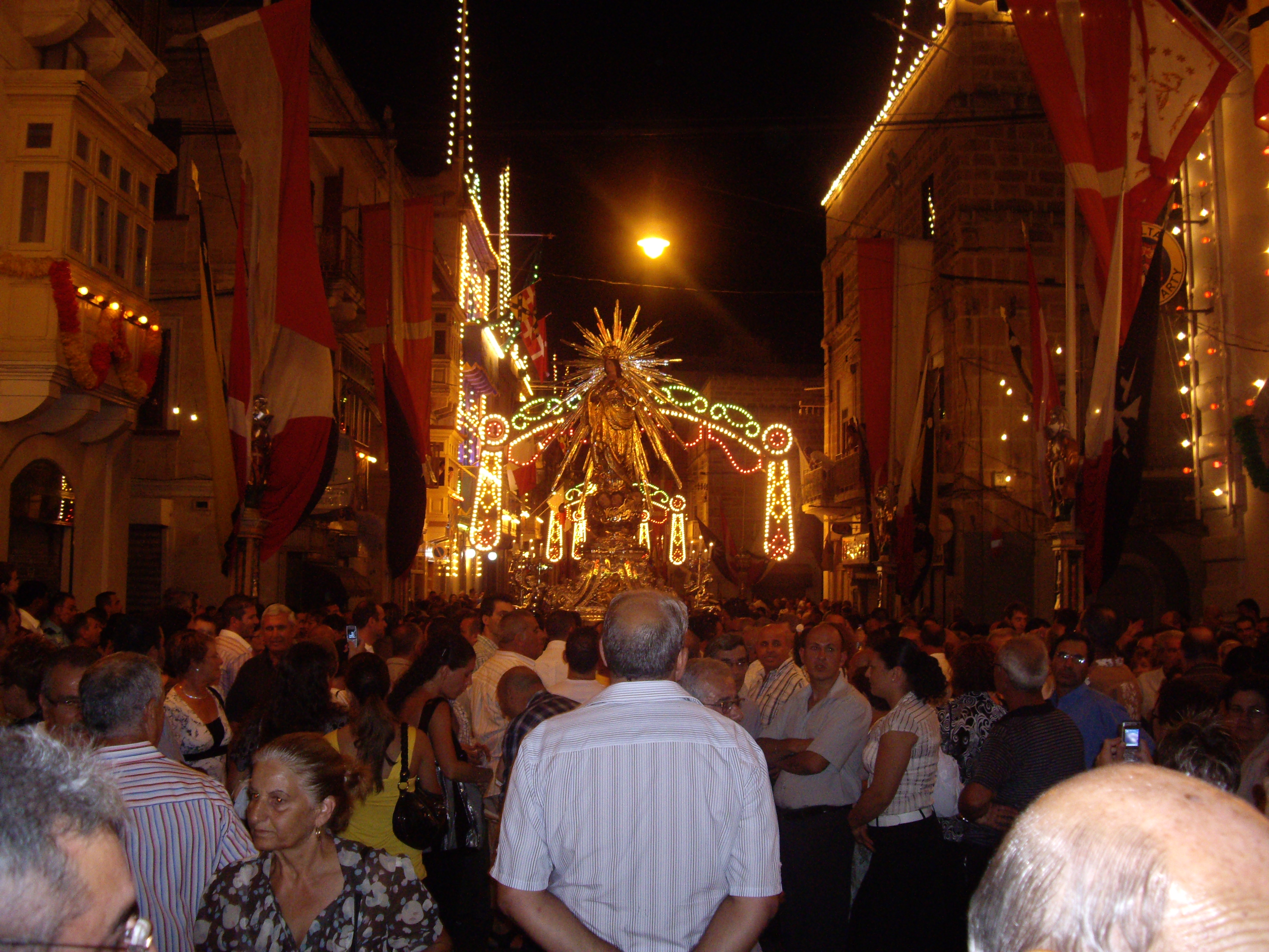 Senglea's "Festa" (feast) held on the 8th of September